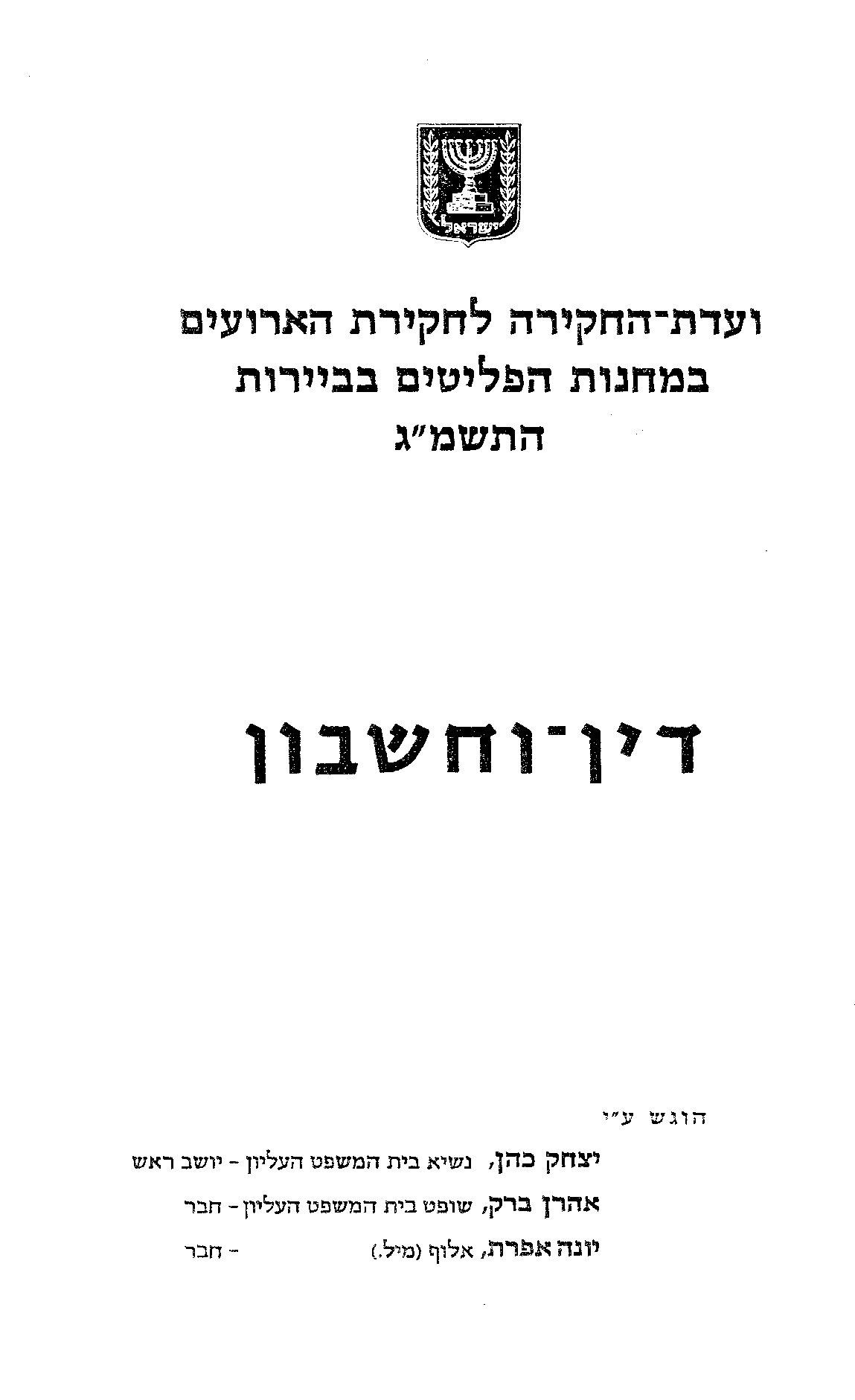 The Kahan Commission Report - cover